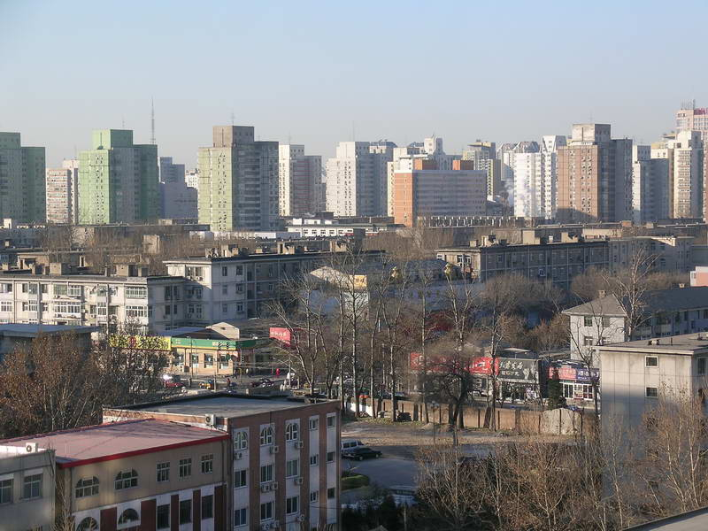 Ta yuan in Haidian district in Beijing